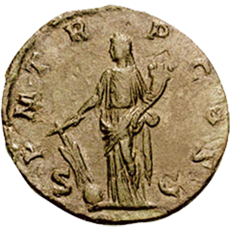 Reverse of a bronze dupondius struck by Didius Julianus, depicting Fortuna Redux holding in her right hand a rudder set upon a globe and cradling a cornucopia in her left arm. Inscription: P(ontifex) M(aximus) TR(ibunicia) P(otestas) CO(n)S(ul), with S(enatus) C(onsulto) in base.